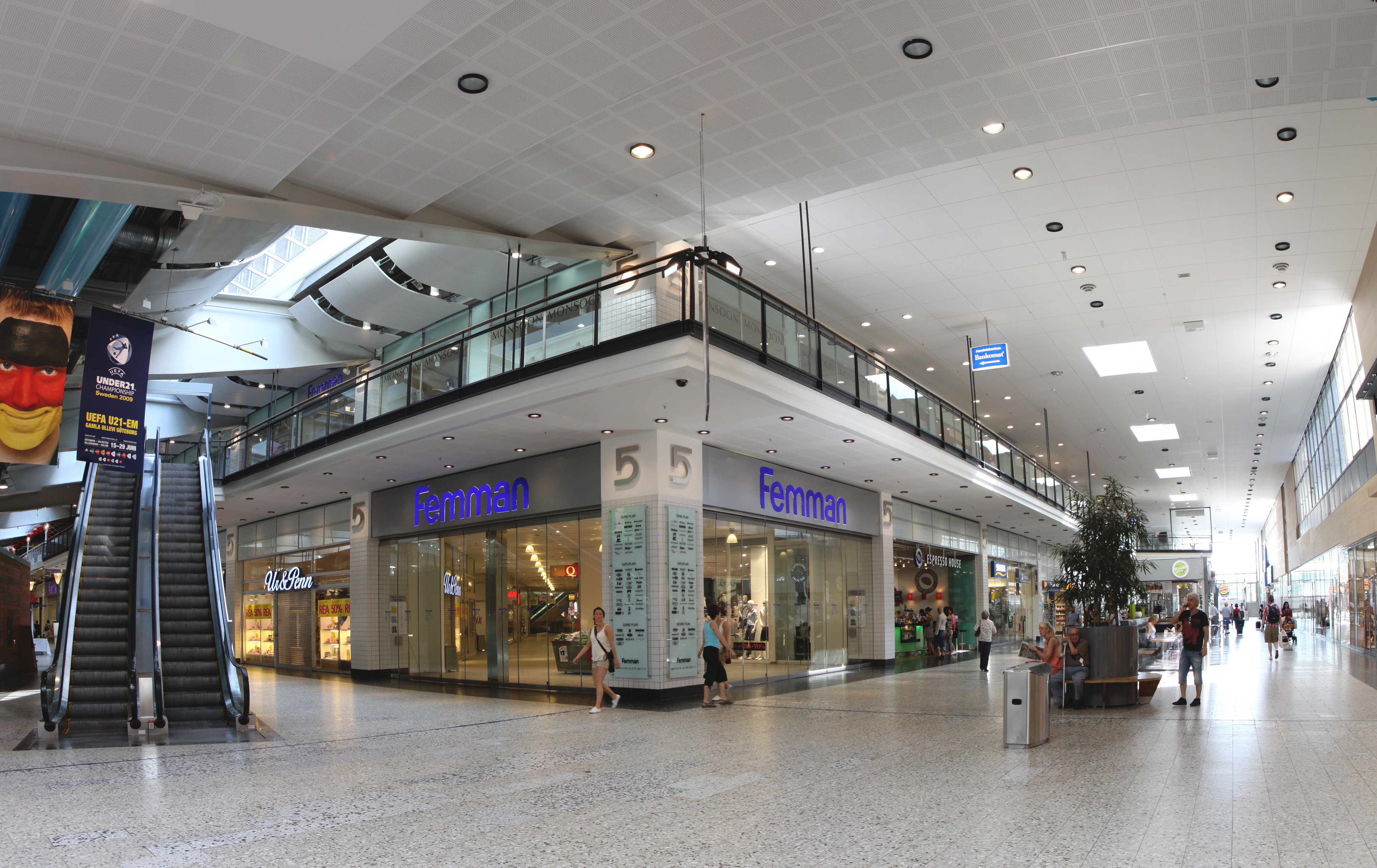 Femmanhuset, a building that is part of the shopping mall Nordstan in Gothenburg, Sweden. Old look, before rebranding